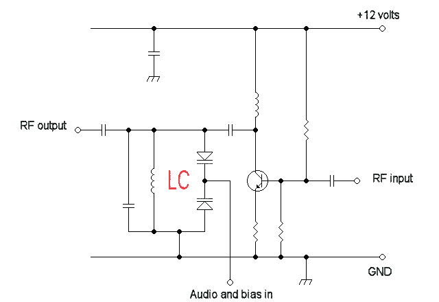 Indirect FM (phase modulation) circuit for a hypothetical transmitter